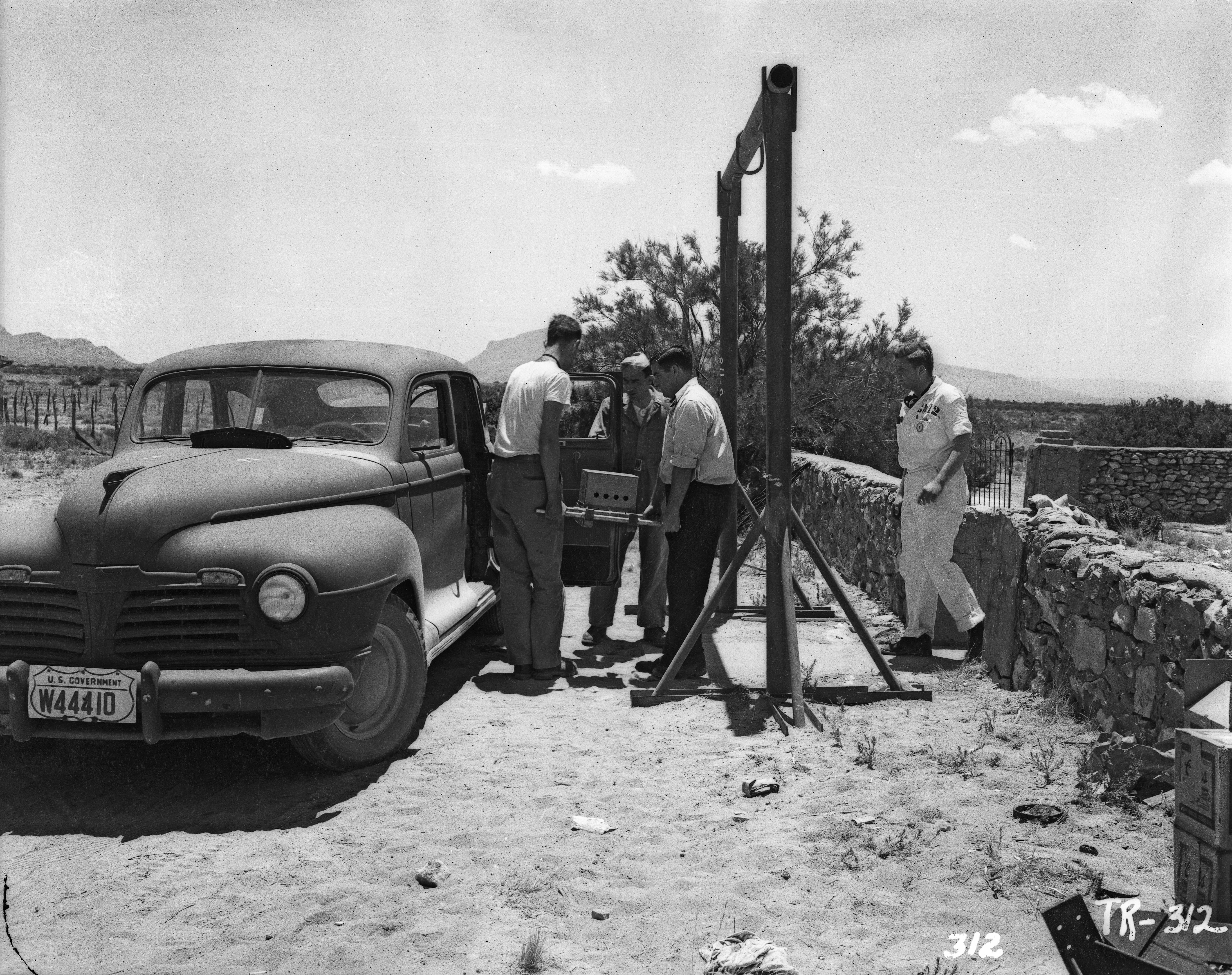 TRINITY PHOTOGRAPH - Alamogordo, NM - Trinity Test, July 16, 1945 - Vital Components are loaded at the old McDonald Ranch for the trip to the Trinity test site.